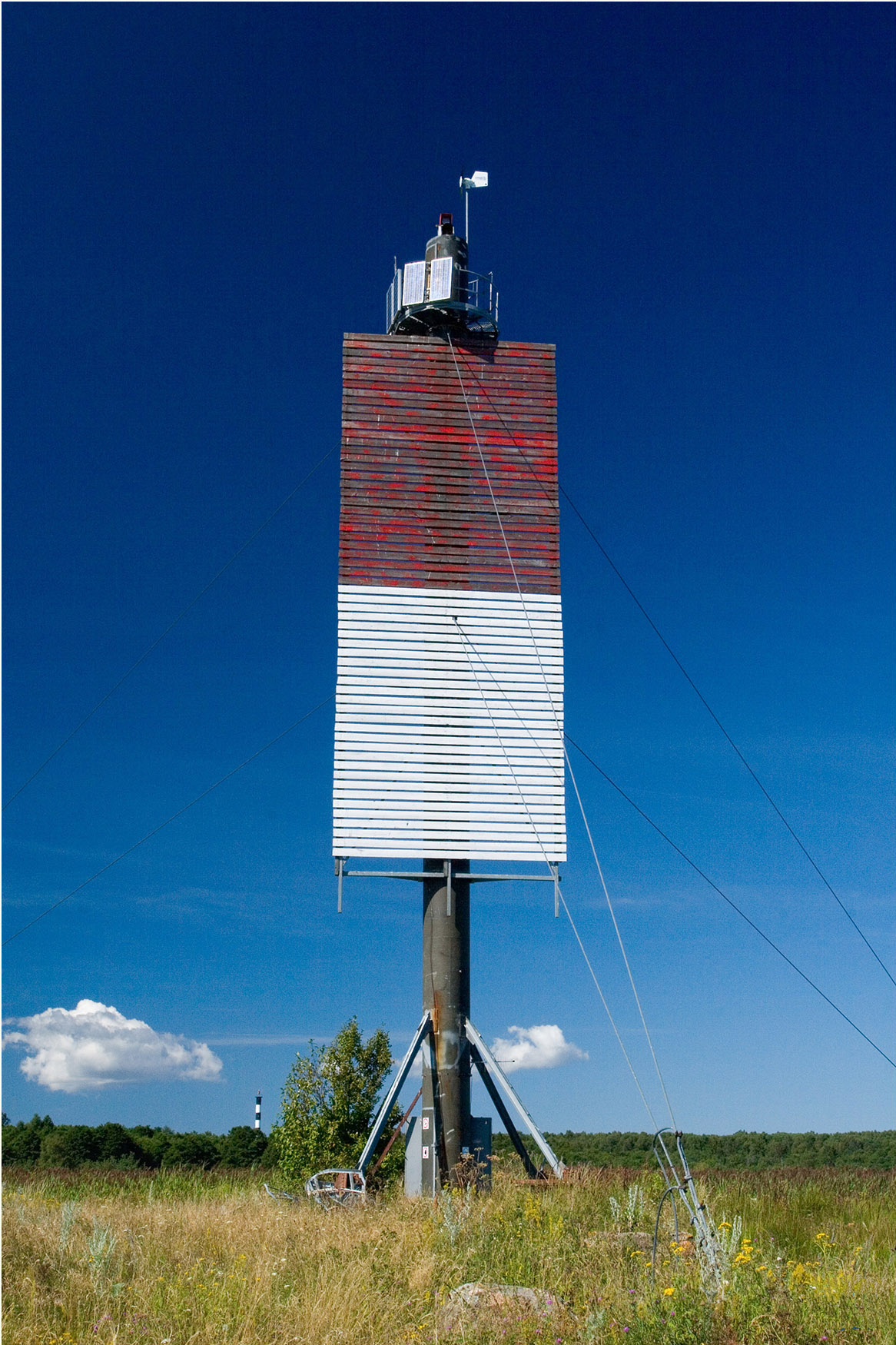 Abruka front light beacon